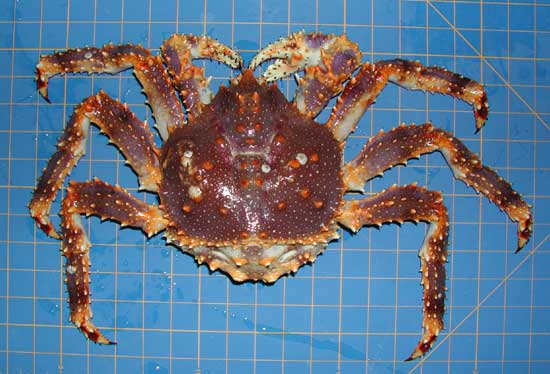 Dorsal view of a female blue king crab, carapace length 127mm. Blue king crab are not totally blue, but have much more blue colour than red king crabs. Lab image.